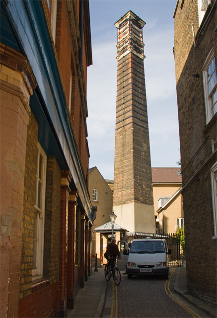 New End Chimney This chimney, which has grade II listed status, was built in 1898 for the boilerhouse of the New End workhouse infirmary - later to become New End Hospital. The hospital was given over to residential use in 1996-8 and the chimney was retained as a local landmark. Information from Camden Council website - fuller details at